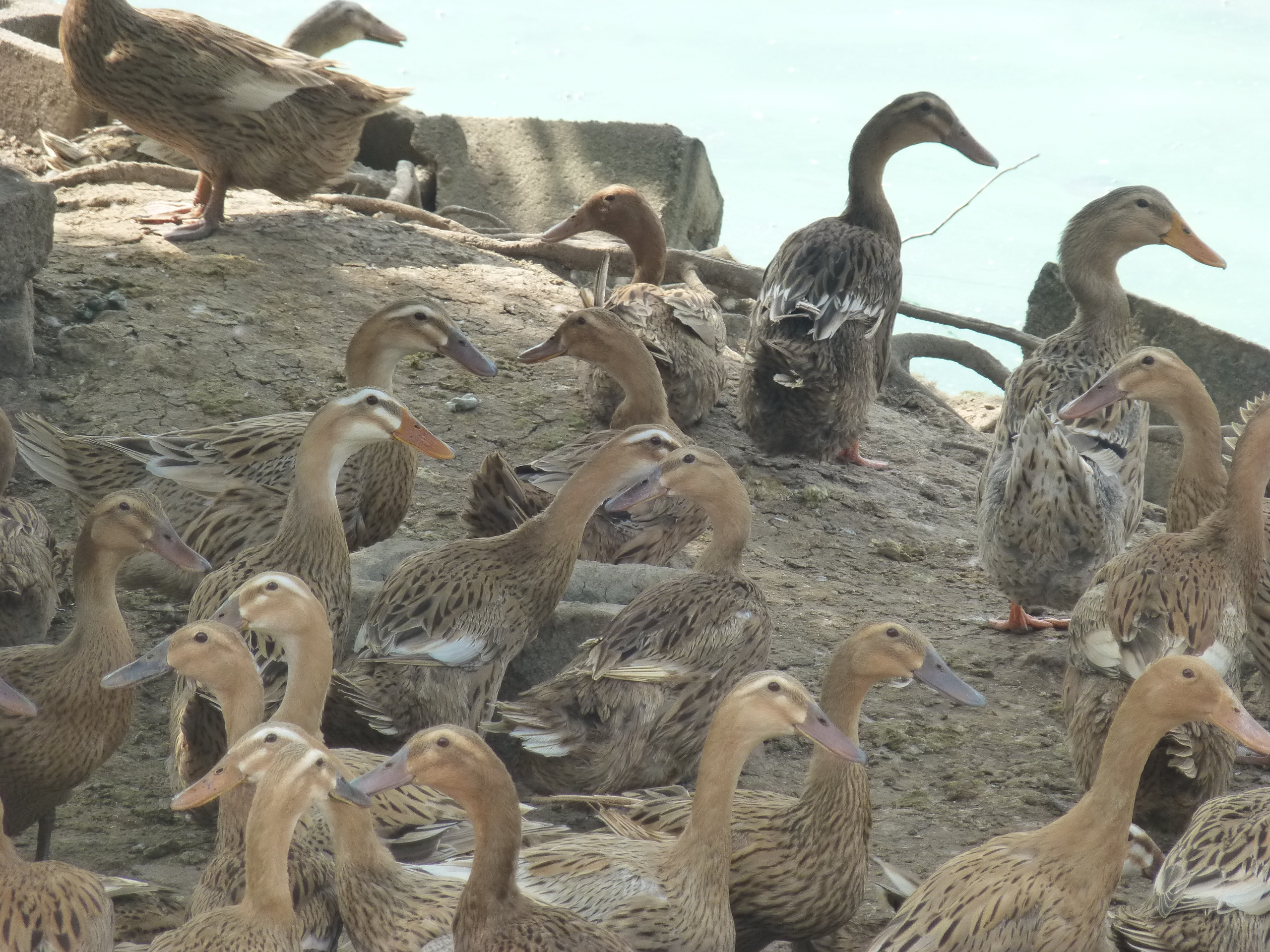 A duck pond in Yancuo Town, near Zhangzhou Railway Station